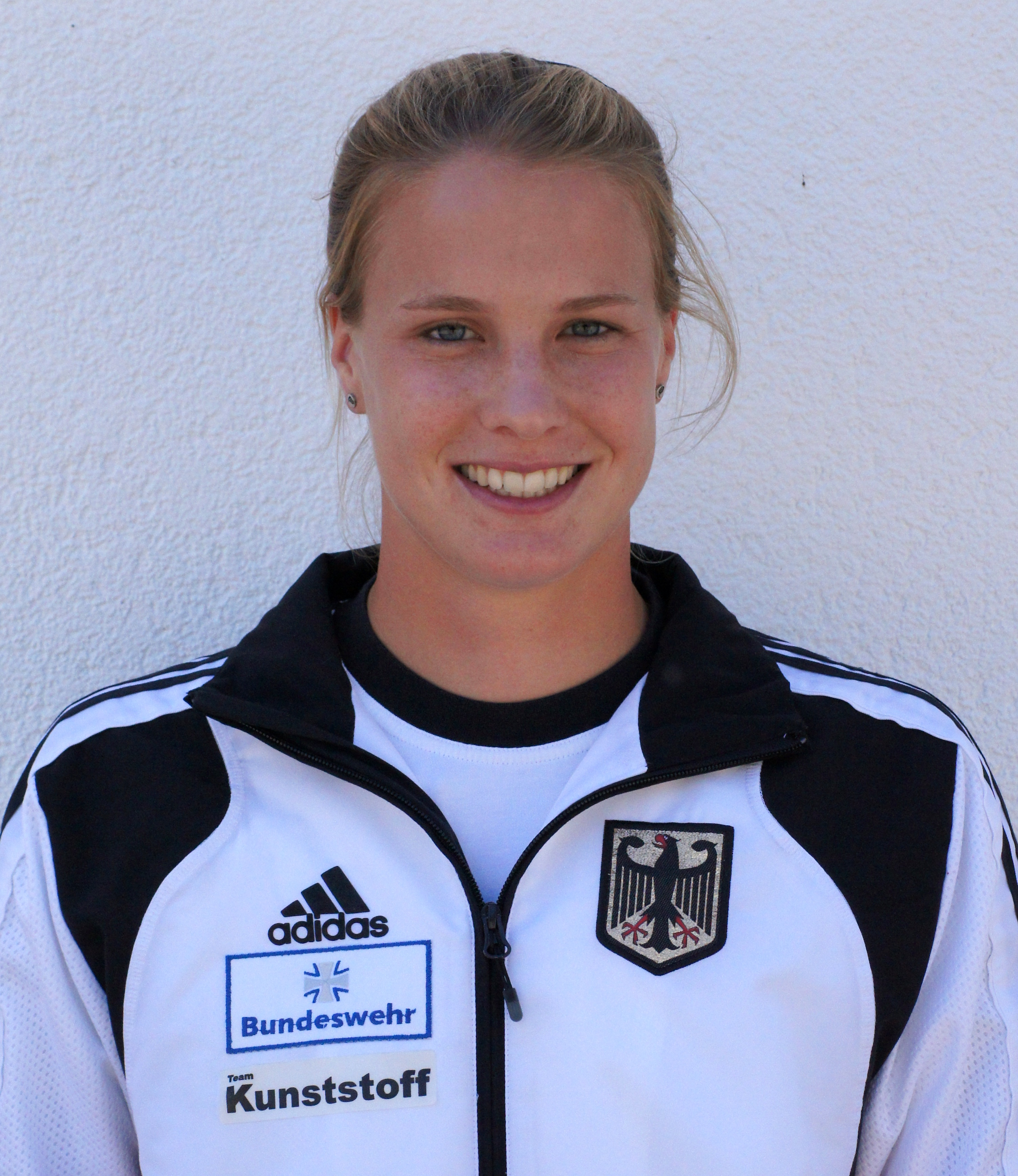 Verena Hantl (2013)